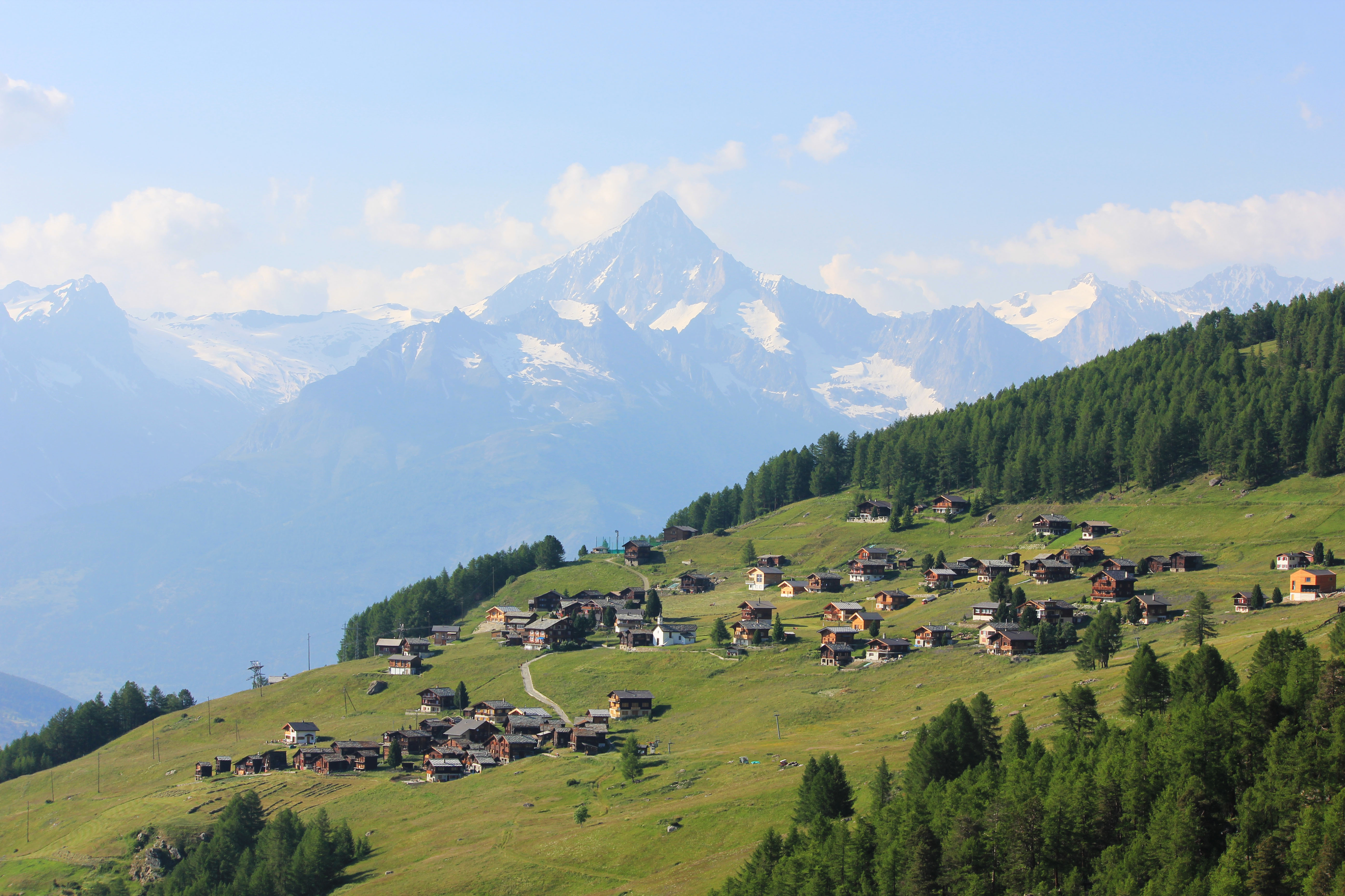 Gspon with Bietschhorn, Staldenried, Valley, Switzerland